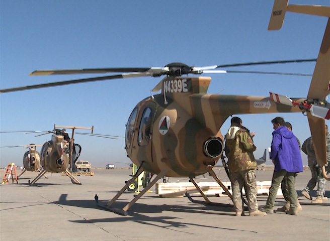 Maintenance personnel fuel MD 530F helicopters prior to acceptance flights at Shindand, Afghanistan, Dec. 7 (Air Force photo/Staff Sgt. Isaac Garden)